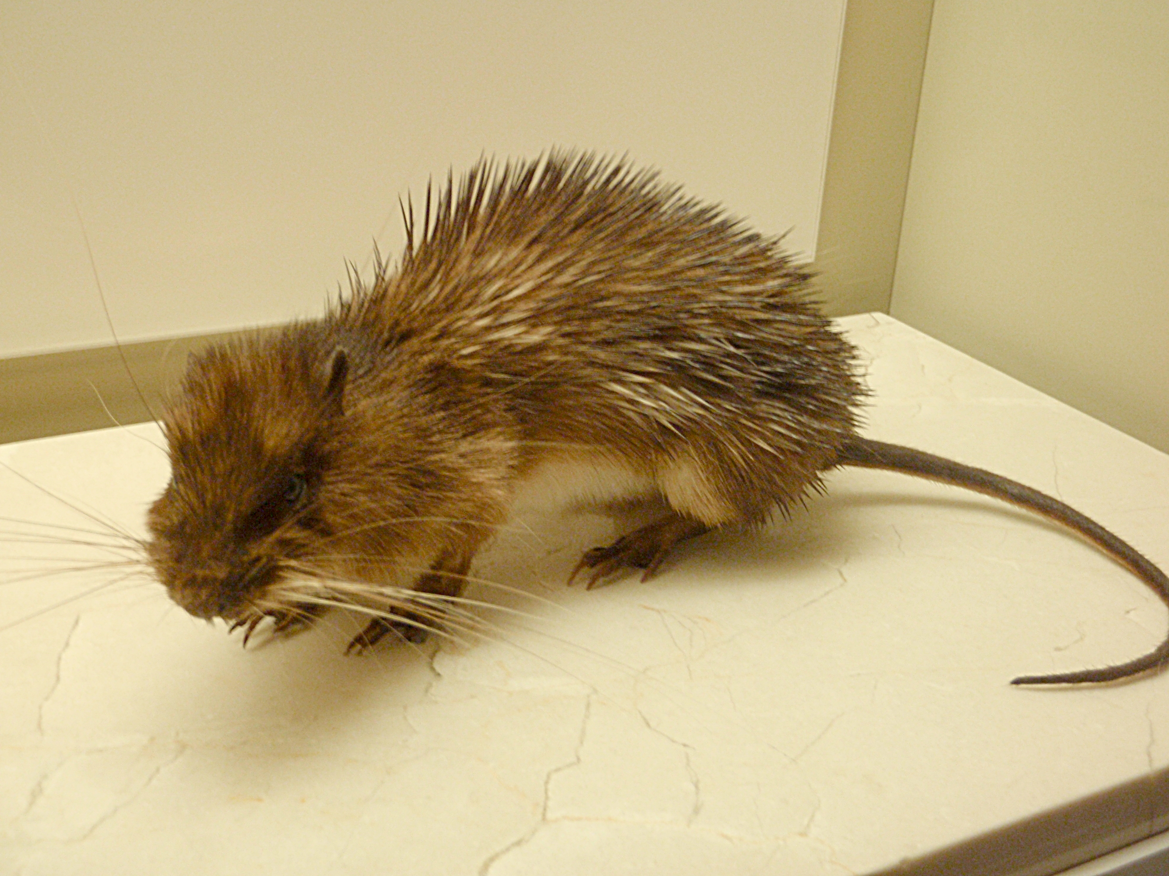 1 Summary A picture of a stuffed Armored Rat taken at the National Museum of Natural History.